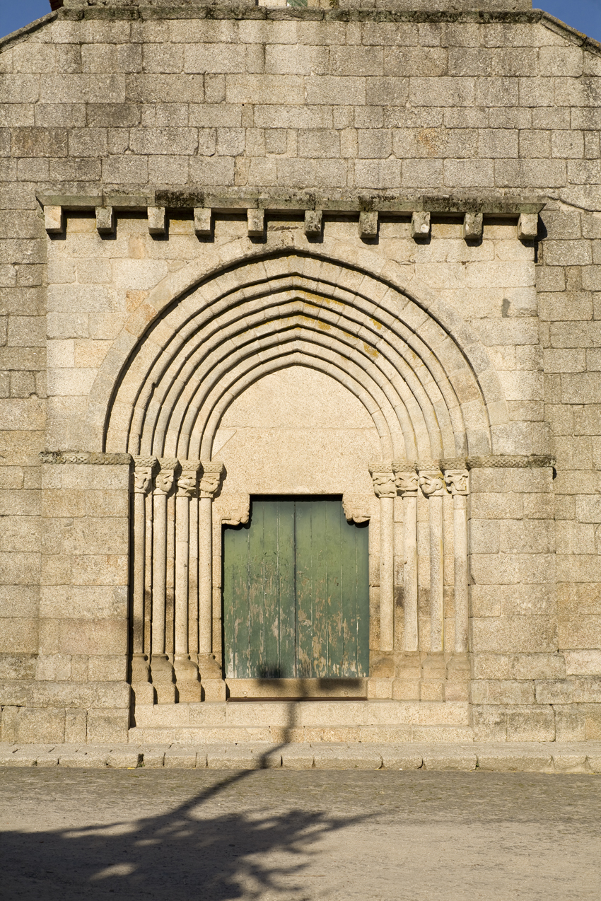 This file was uploaded for Wiki Loves Monuments in Portugal with the unique identifier 69880.